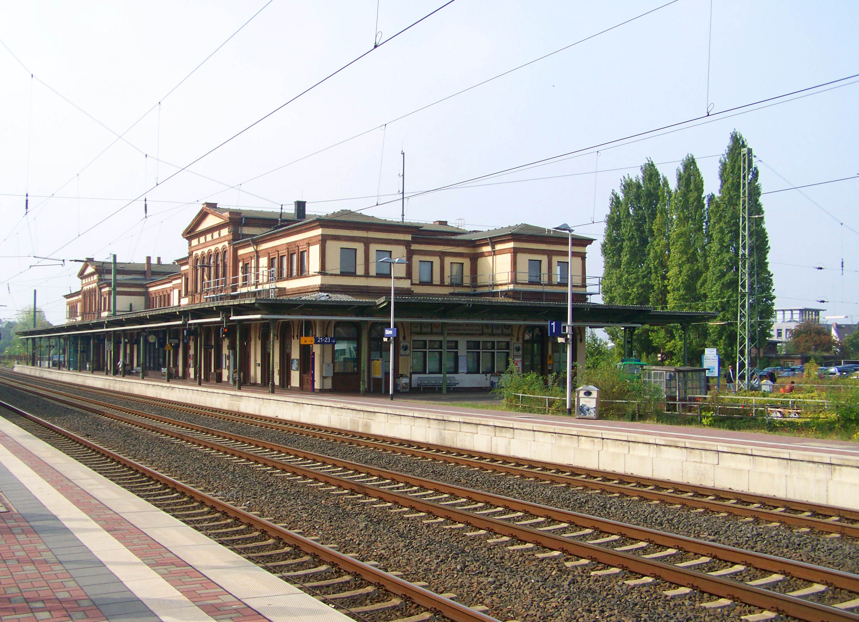 Düren station